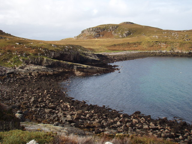 Camus na Rainich, with Carr Mor in the background, the largest hill in the west end of Longa Island, Inner Hebrides of Scotland.